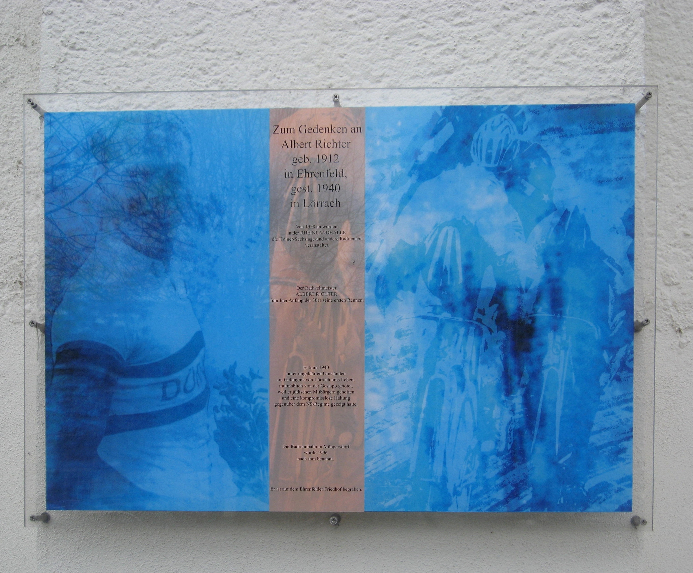 Albert Richter commemorative plaque in Rheinlandhalle, Köln-Ehrenfeld (Germany). Design: Ulrich Schnackenberg